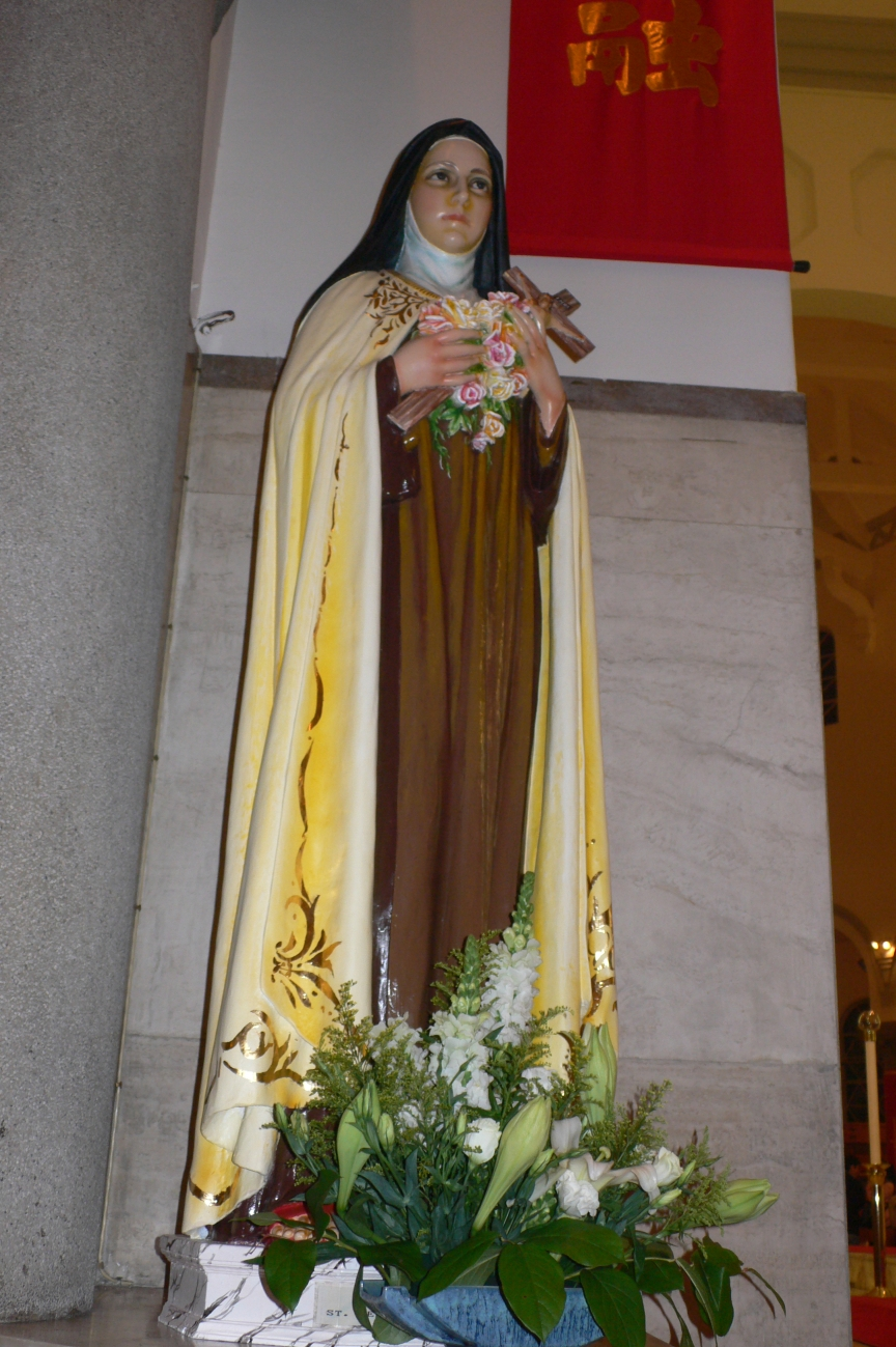 The Statue of Saint Theresa of Lisieux in St. Theresa's Church, Hong Kong